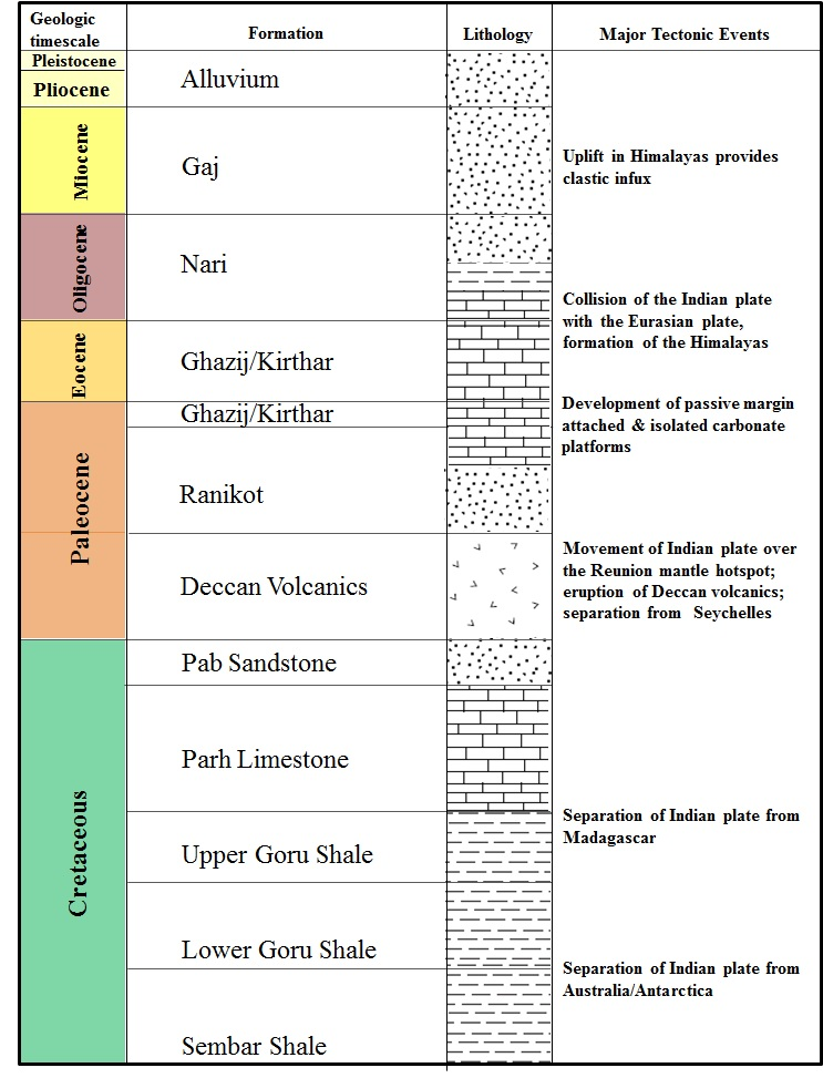 modified from Carmichaels et al., 2009